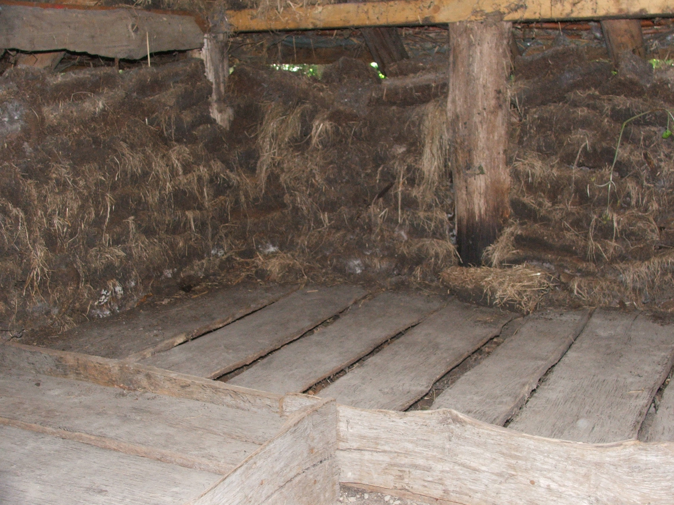 Moormuseum Moordorf - House made of peaces of peat